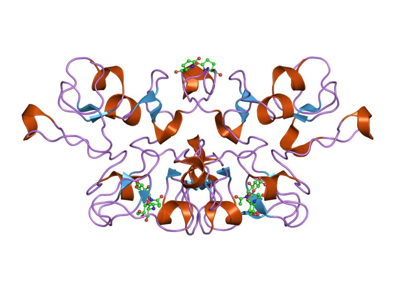 Cartoon representation of the molecular structure of protein registered with 1k7u code.